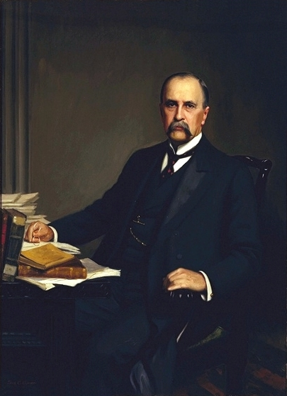 William Osler by Thomas C. Corner (1865-1938), 1905. Source: The Alan Mason Chesney Medical Archives